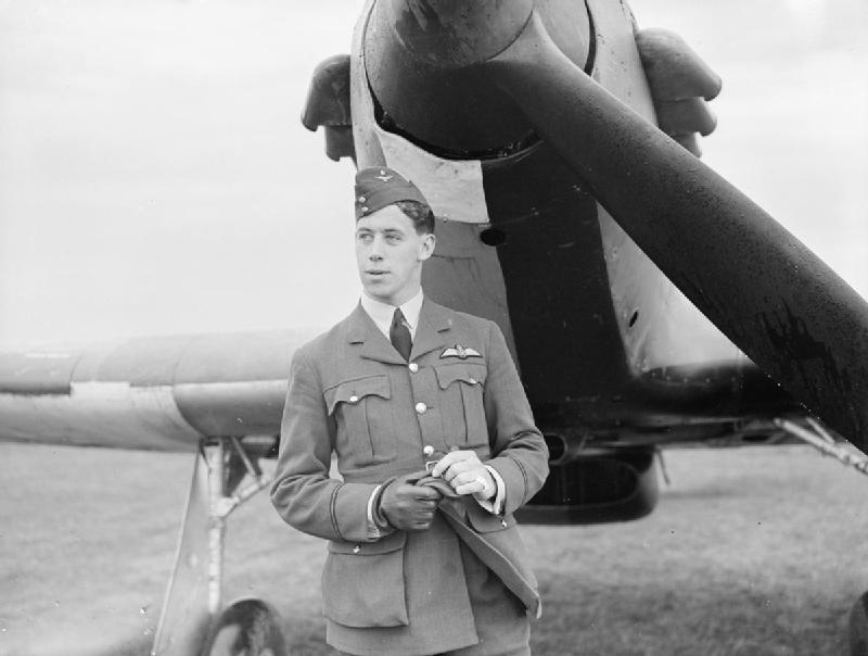 Royal Air Force 1939-1945- the RAF in France, 1940 The RAF's first ace of the war was Flying Officer Edgar 'Cobber' Kain of No 73 Squadron, seen here with his Hurricane at the beginning of April 1940. Comment : This shows a Hurricane Mark I with original two-bladed propeller.